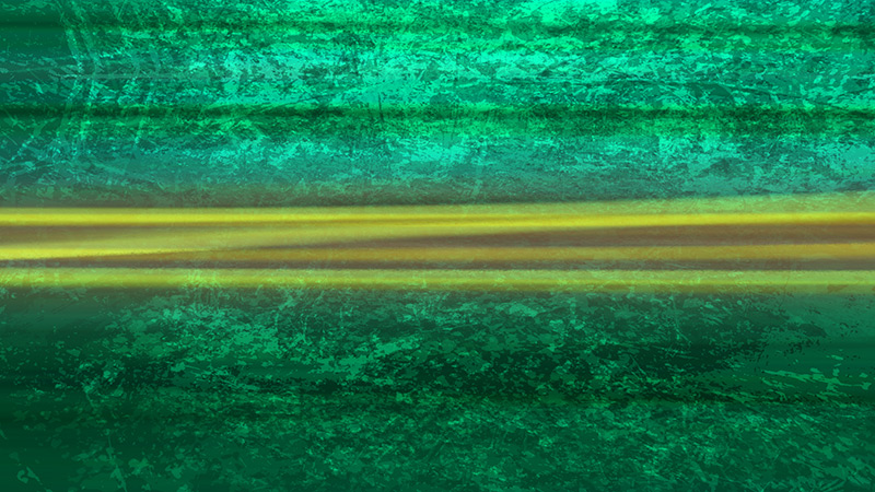 Still from film ARROW